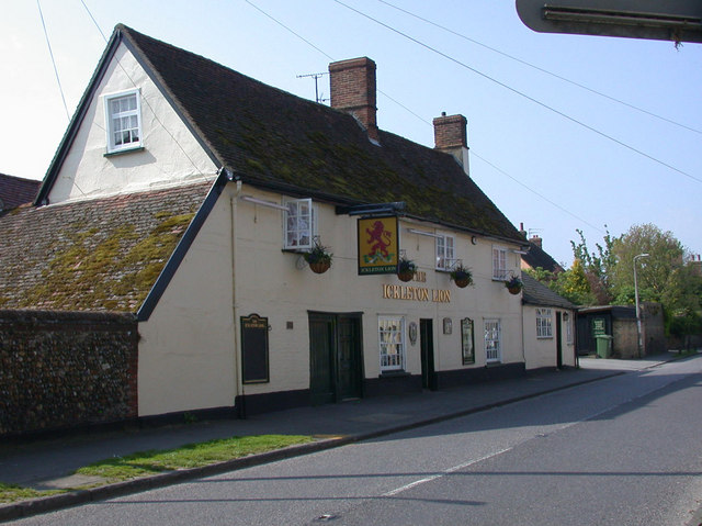 The Ickleton Lion Public house, Ickleton, Cambridgeshire. Built about 1700, altered in the 18th & 19th centuries. Timber-framed and plastered panels with some original patternwork. Plain tiled roof with ridge stack to right of centre and gable end stack to right hand. Grade II listed.